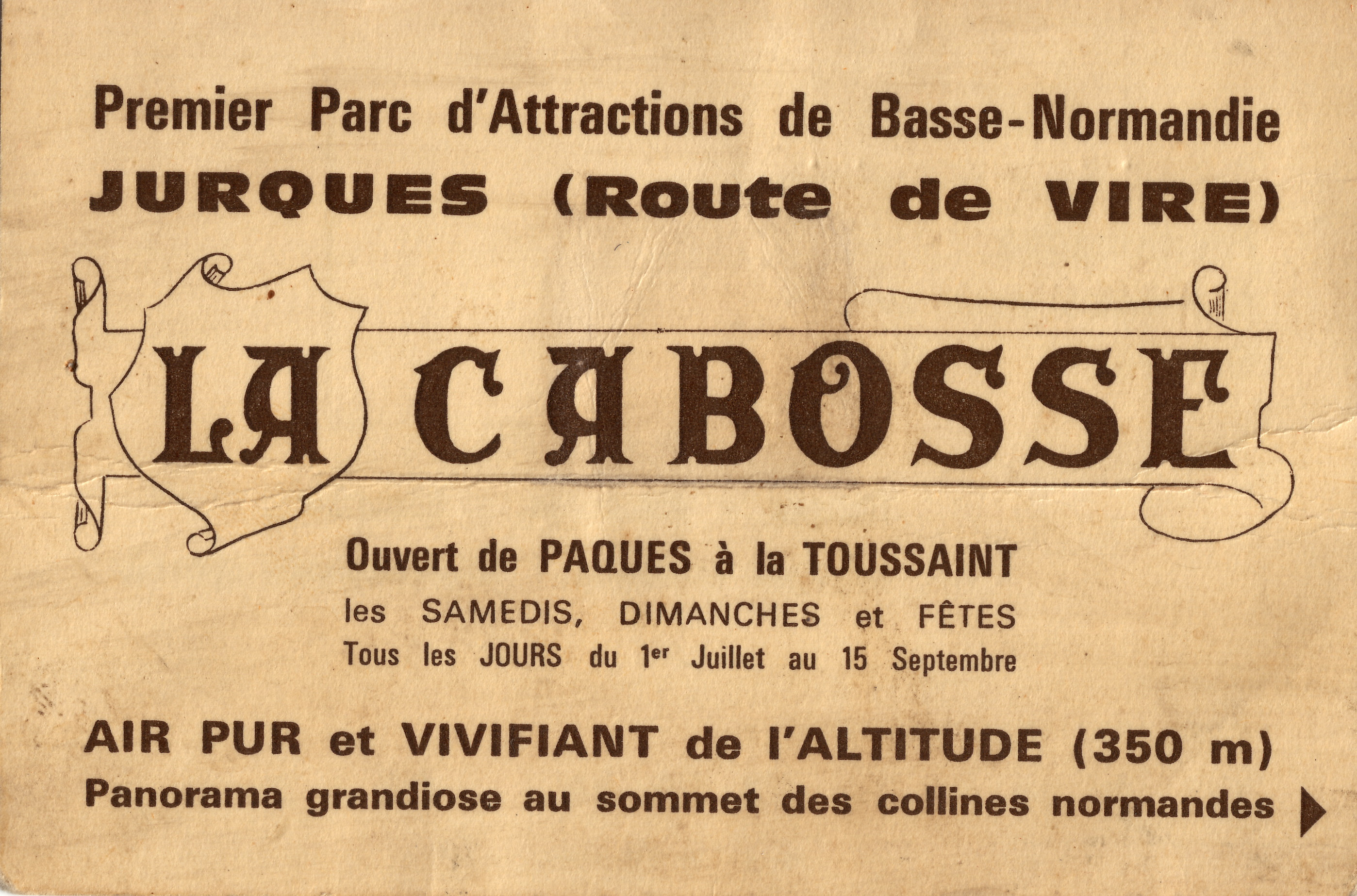 Visit card of the "Parc La Cabosse"